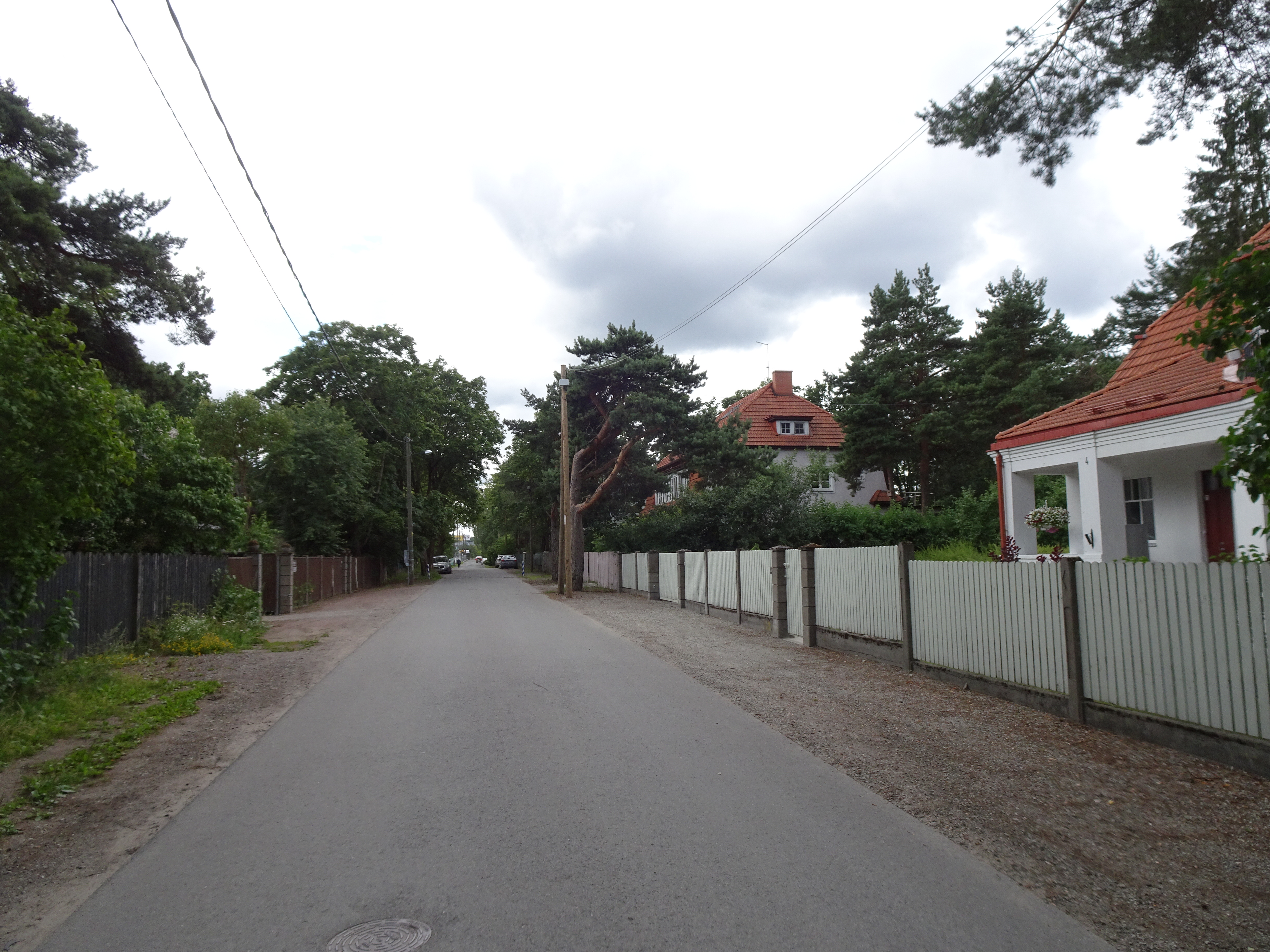 Laine Street in Tallinn, Estonia